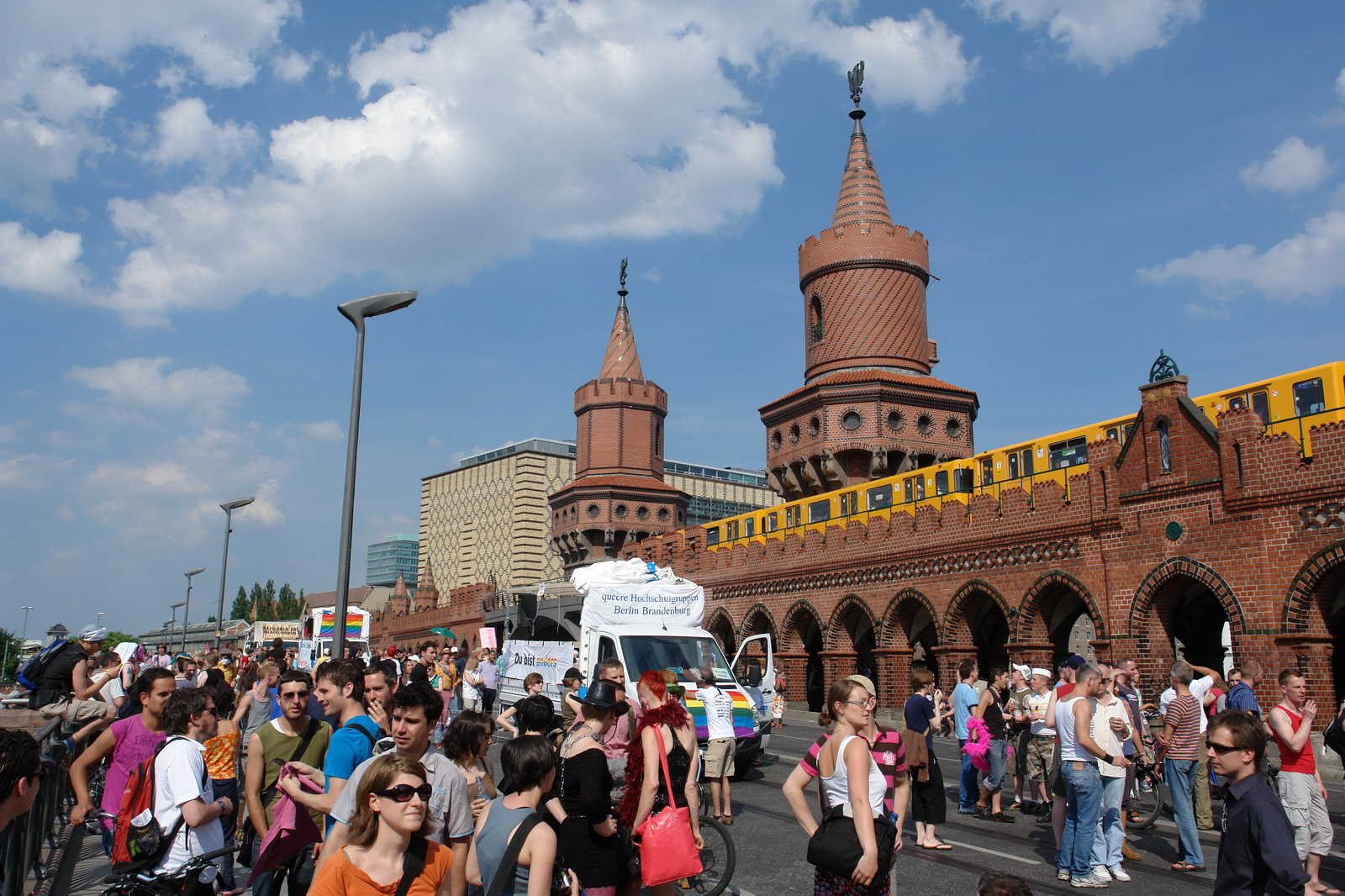 Alternative Pride March (Transgenialer CSD) in Berlin, 2006.